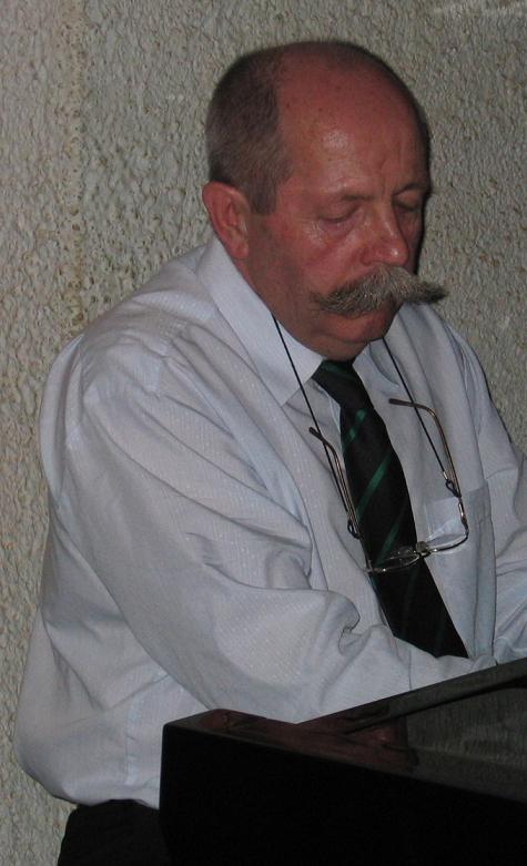 Milan Dekleva, slovenian poet and writer